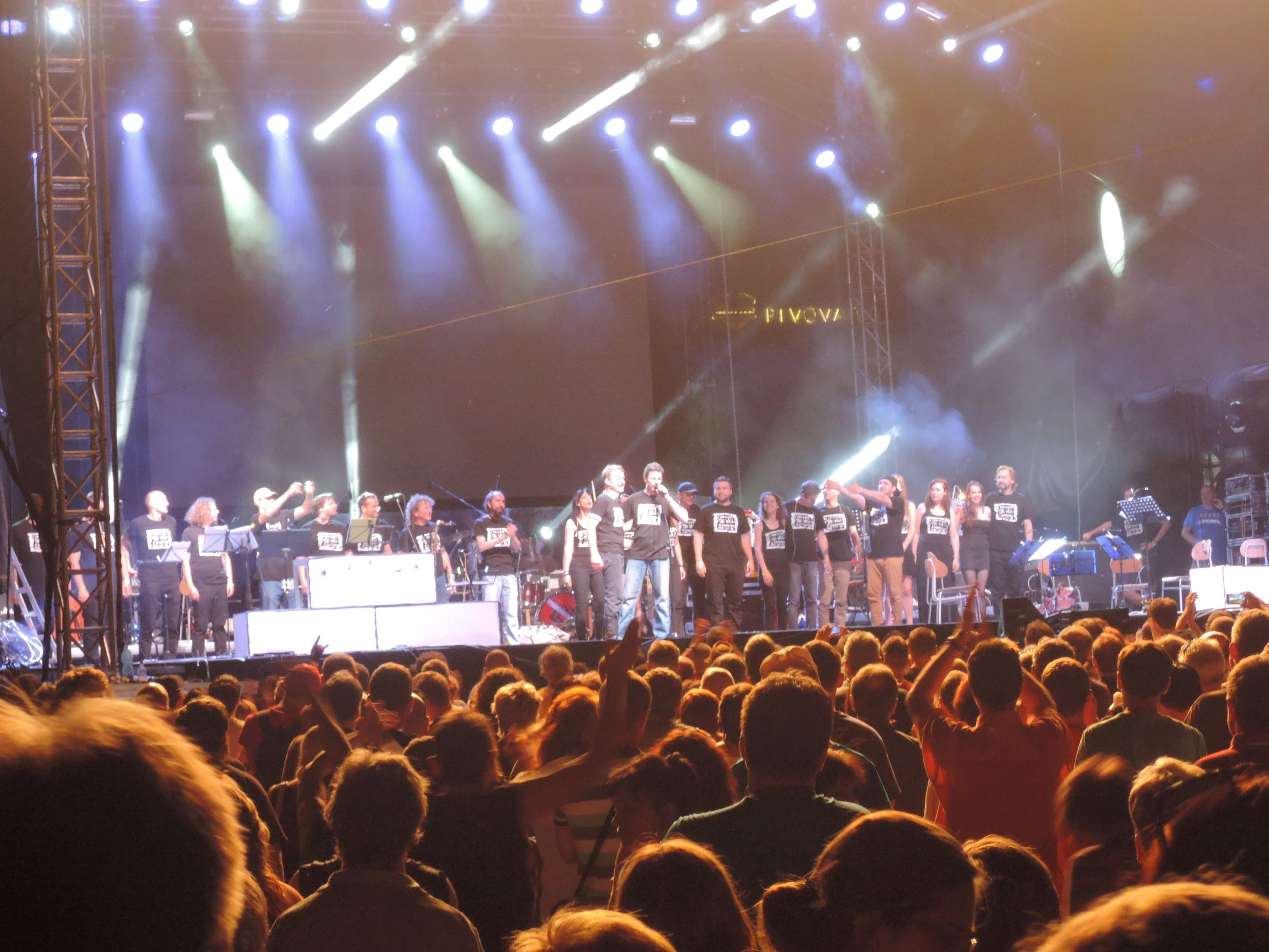 The Wall (Pink Floyd) revival 2016, Kromeriz, Czech republic